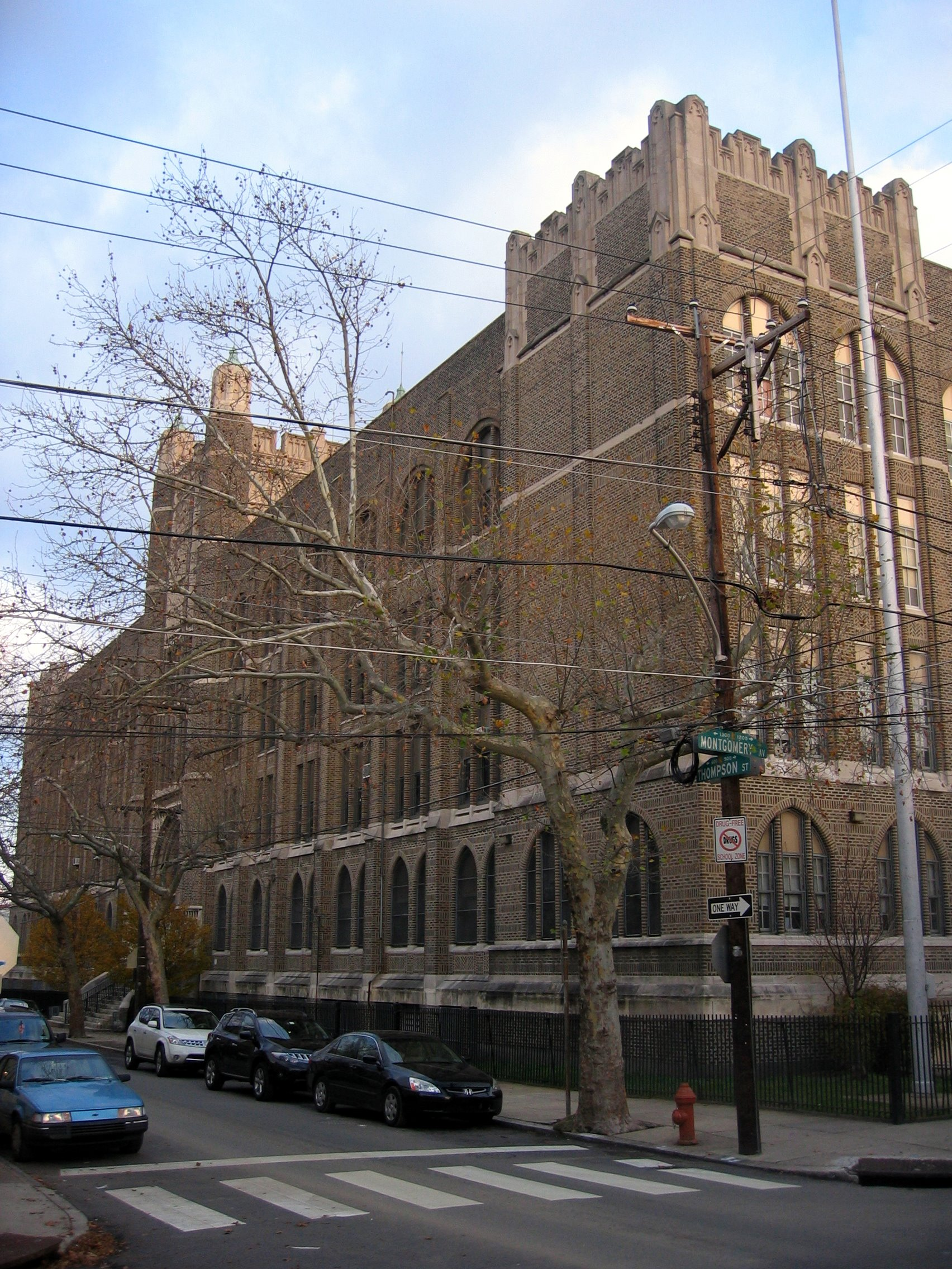 Designed by Irwin T. Catharine and constructed in 1927, the Penn Treaty School (formerly Penn Treaty Junior High School) is a late Gothic Revival School located at 600 E. Thompson Street.